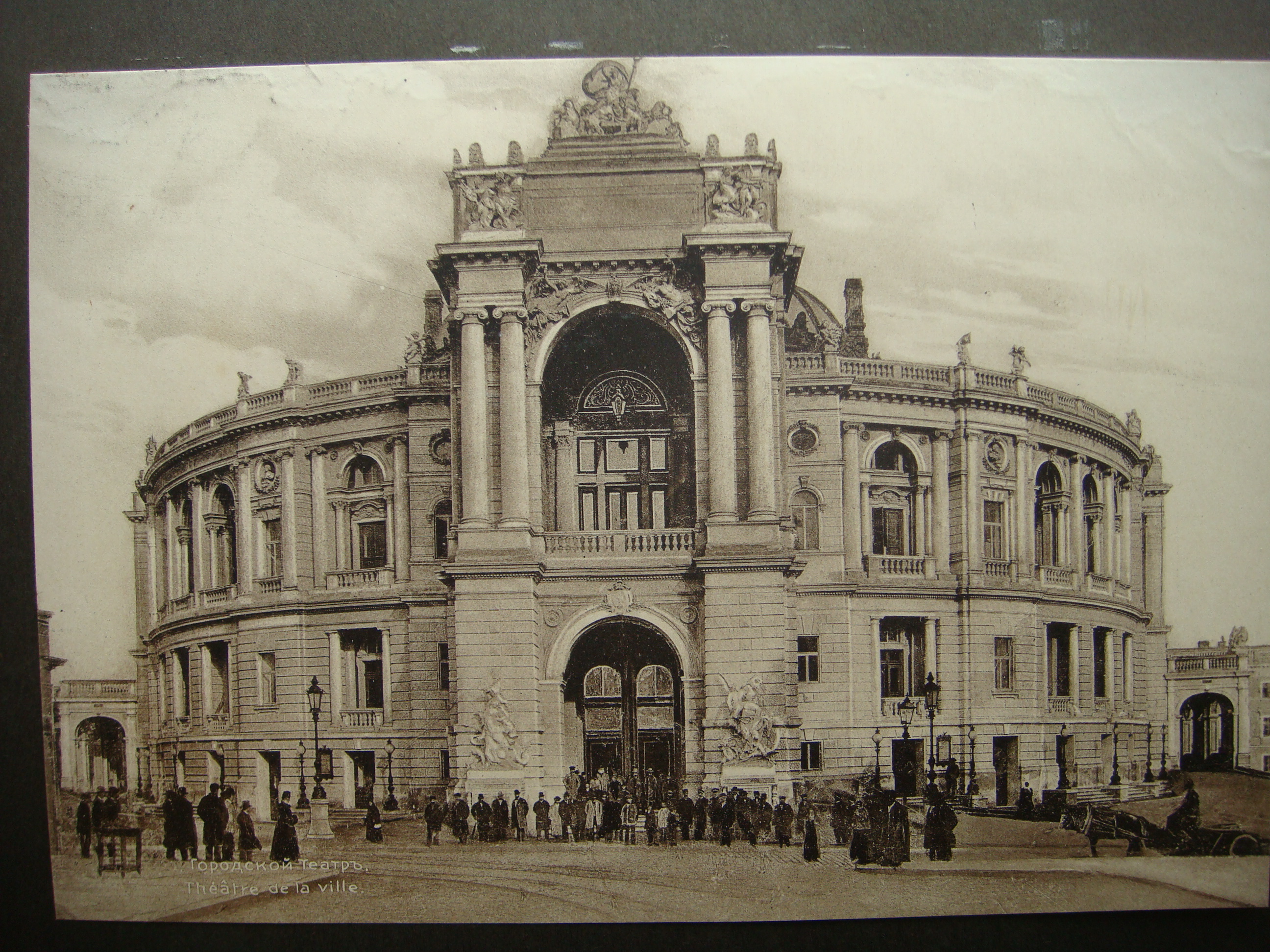 This is photo view of Odessa from Souvenir Photo Album published in Odessa circa early XX century.